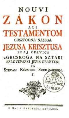 The Nouvi Zákon (New Testament) prekmurian (prekmurščina) translation of the lutheran Bible in 1771, by István Küzmics